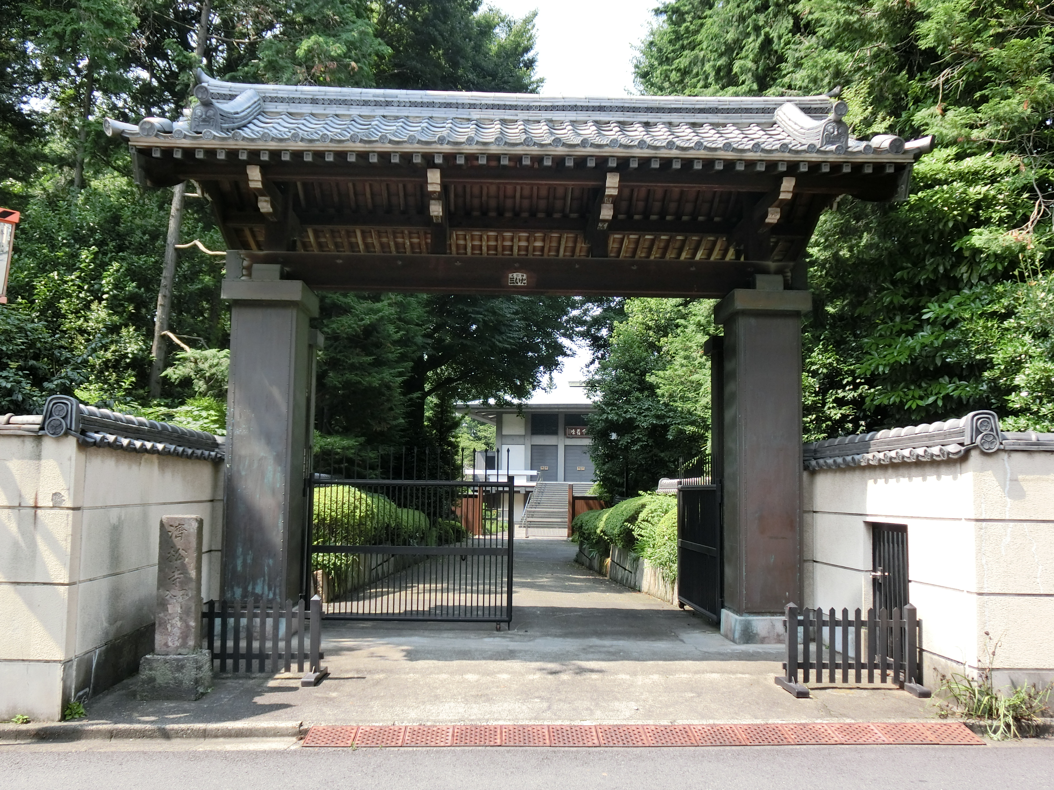 Saisho-ji (Shinjuku)